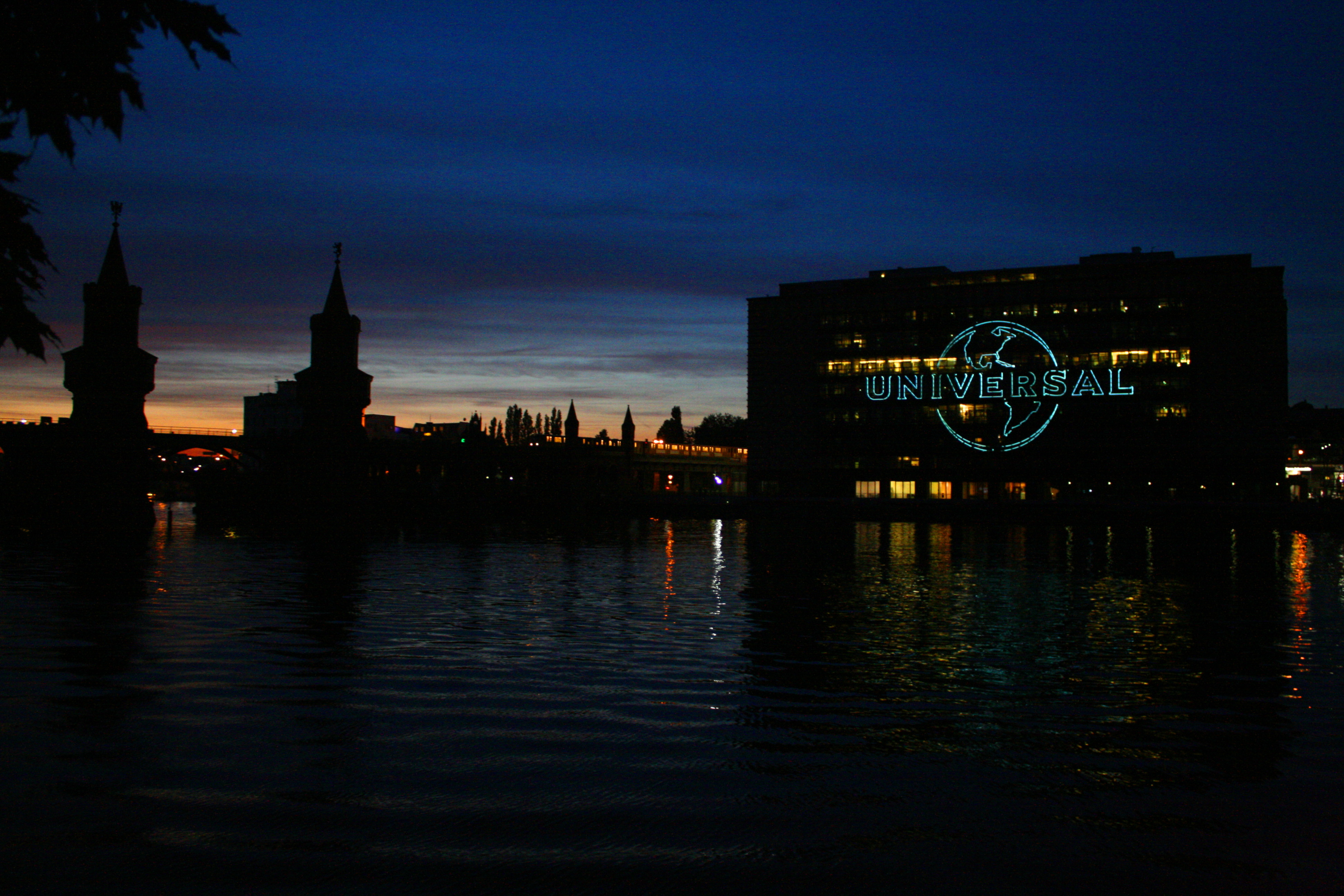 Oberbaumbrücke and Universal-Music by the Spree-River in Berlin (Fiedrichshain-Kreuzberg) at dusk